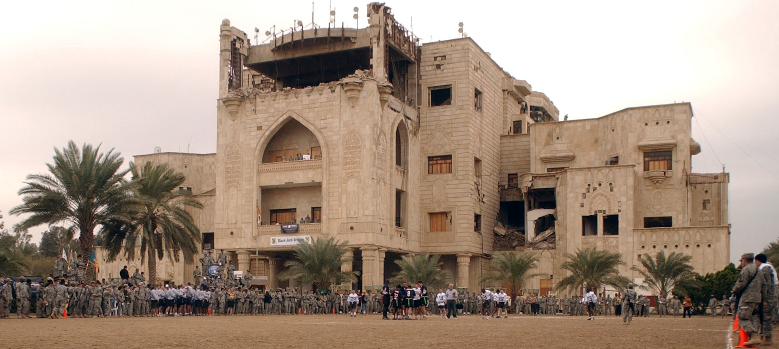 U.S. Army Soldiers, 2nd Brigade Combat Team, 1st Cavalry Division, stand around the field and watch the flag American football game between Team Forward Operating Base (FOB) Falcon and Team Prosperity and the International Zone, FOB Prosperity, on Feb. 3, 2007, at FOB Prosperity / Al Salam Palace, Baghdad Governorate, Iraq, during the Baghdad Bowl. (U.S. Army photo by Staff Sgt. Sean A. Foley)